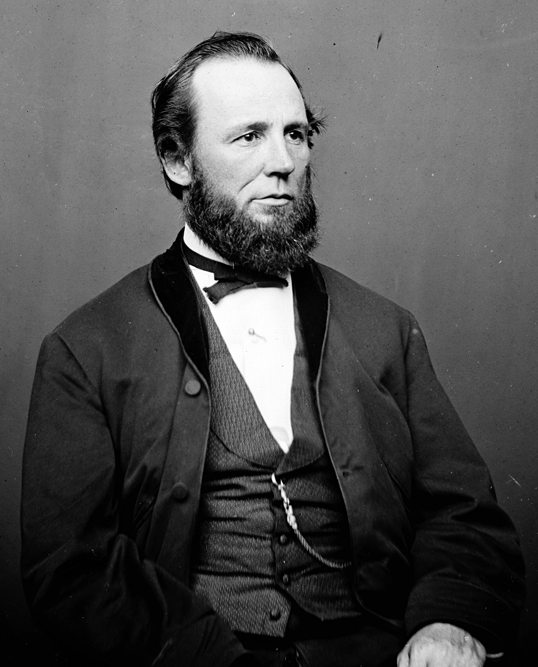 Robert McKnight, US Representative from Pennsylvania